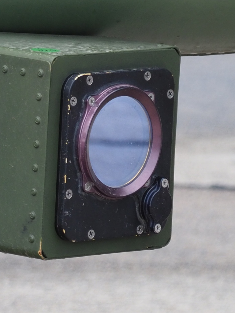 Ultraviolet-based sensor of AN/AAR-60 MILDS missile approach warning system mounted on a french Eurocopter Tiger, German Armed Forces Day, Fassberg Air Base 2019